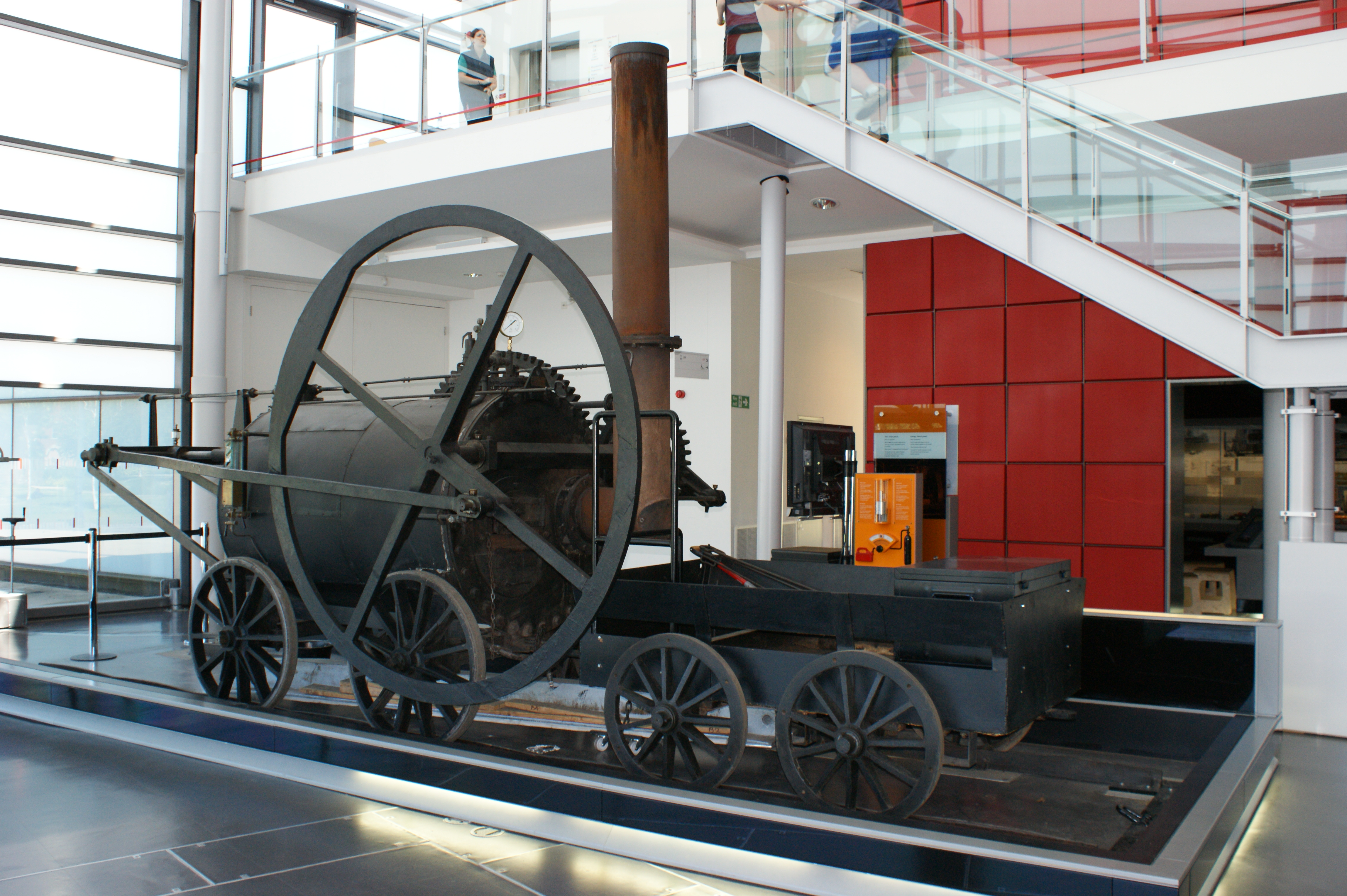 Replica of Richard Trevithick's 0-4-0 built in 1801 at the Pen y Darren Ironworks, South Wales as a stationary steam hammer for ironmaster Samuel Homfray who made a bet with fellow ironmaster Richard Crawshay that a steam locomotive could haul 10 tons of iron from the Ironworks along the 9.75 mile long Merthyr Tydfil Tramroad (4'2" gauge) to the Glamorgan Canal at Abercynon. To perform the bet, the steam hammer was converted by Rees Jones at the Ironworks to a railway locomotive by fitting wheels and motion to it. The locomotive then won the bet for Trevithick (with 70 people - including many who hitched a lift on the iron-carrying wagons!) and was thus the first steam locomotive to successfully haul a train - even though it destroyed the light rails behind it and never ran again! It was, in fact, converted back into a stationary steam enigine at the ironworks. At the Swansea Maritime Museum, 06/09.